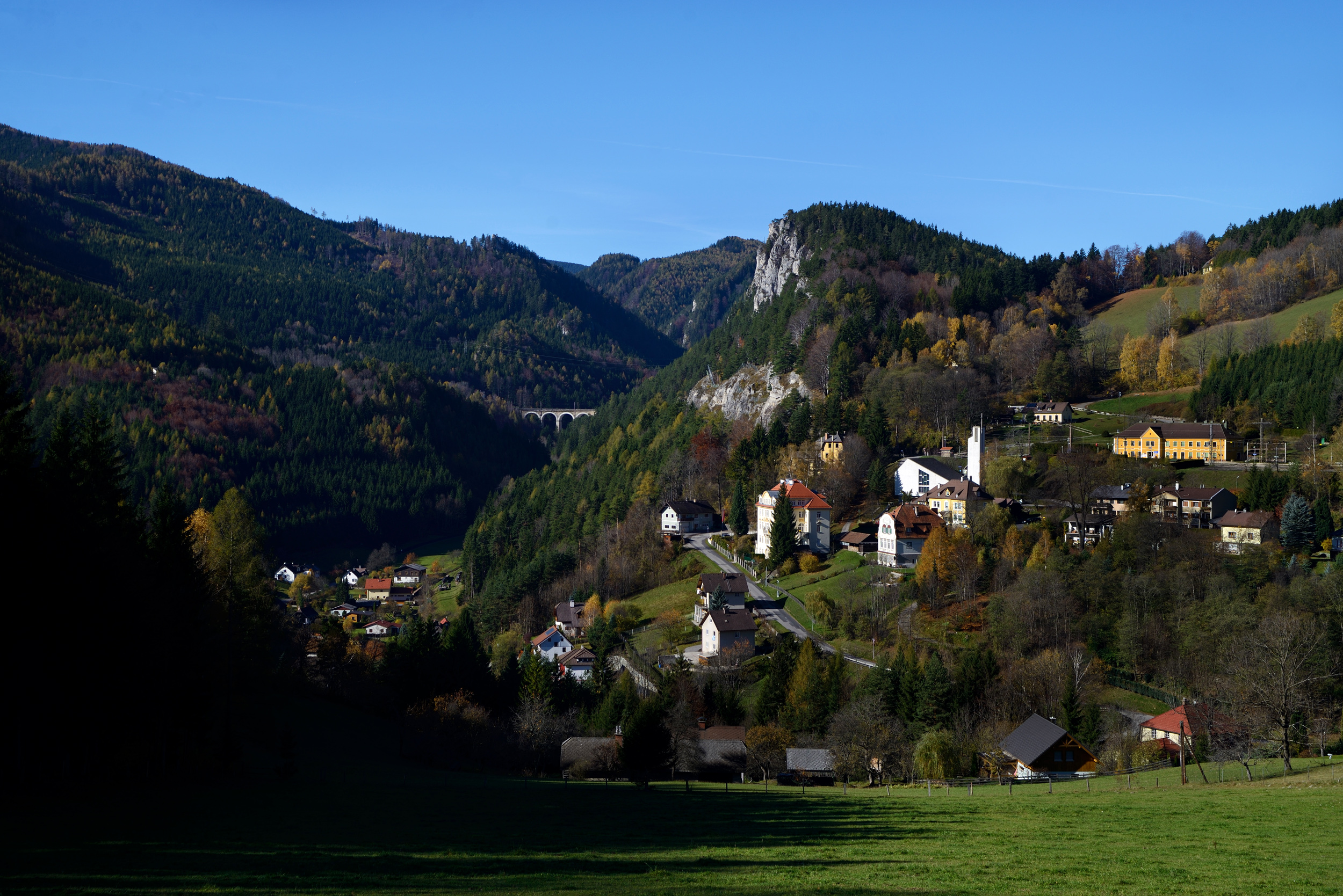 View of Breitenstein (Lower Austria) and the viaduct "Kalte Rinne"